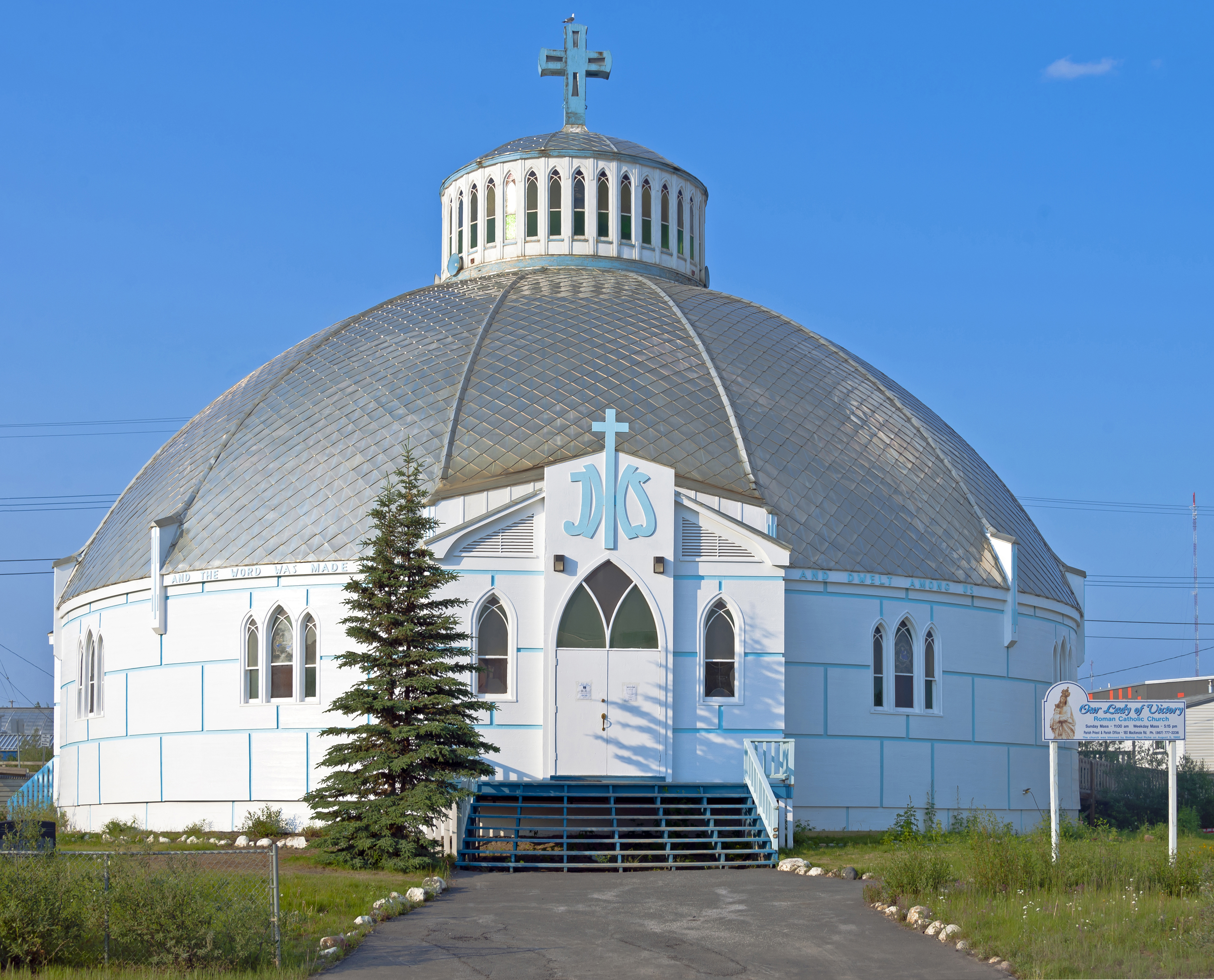 Straight-on front view of Our Lady of Victory Church, Inuvik, NT, Canada, in 9:30 p.m. sunshine.